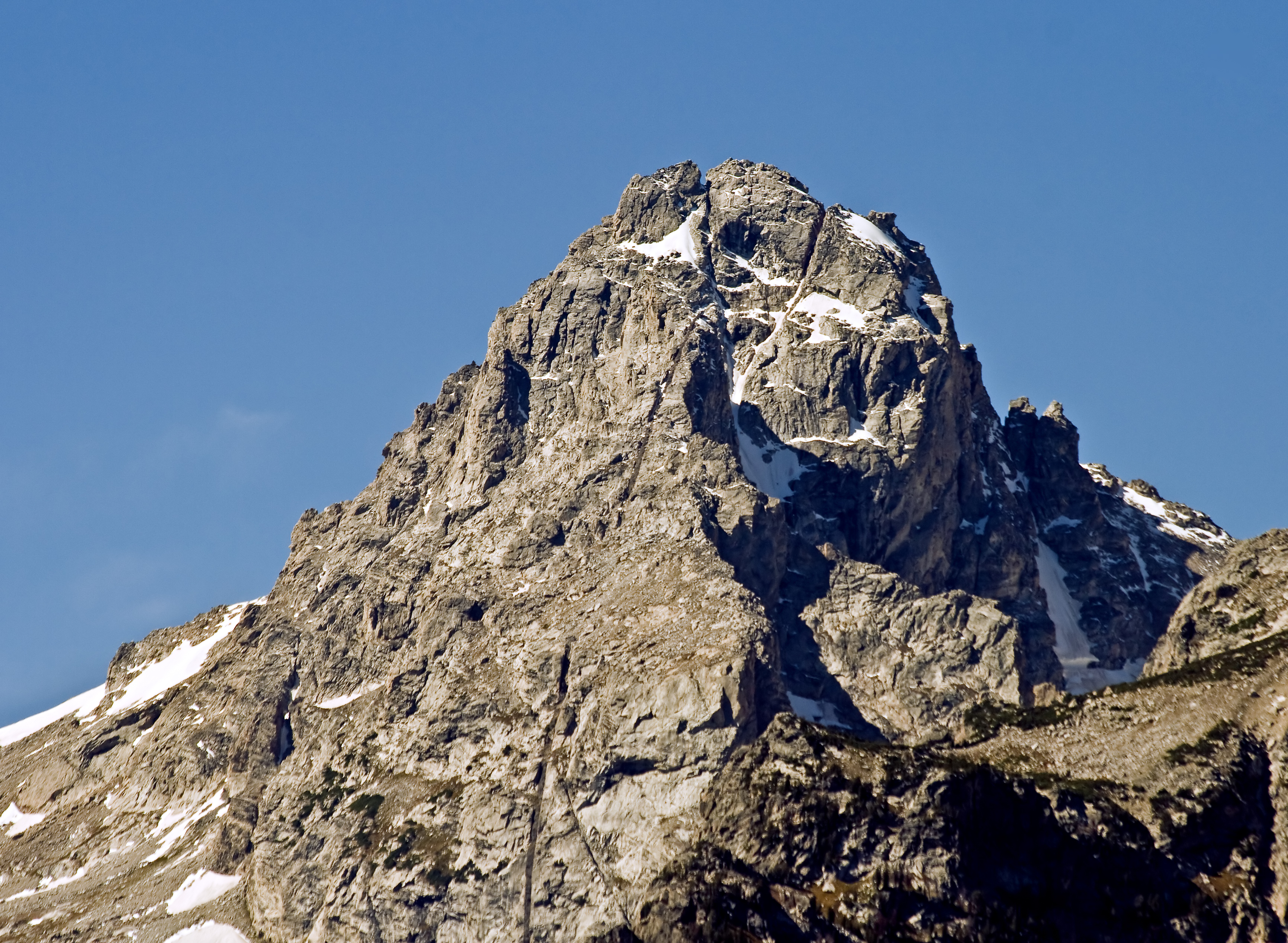 Middle Teton in Grand Teton National Park, Wyoming, USA. Image taken from the Teton Point turnout.